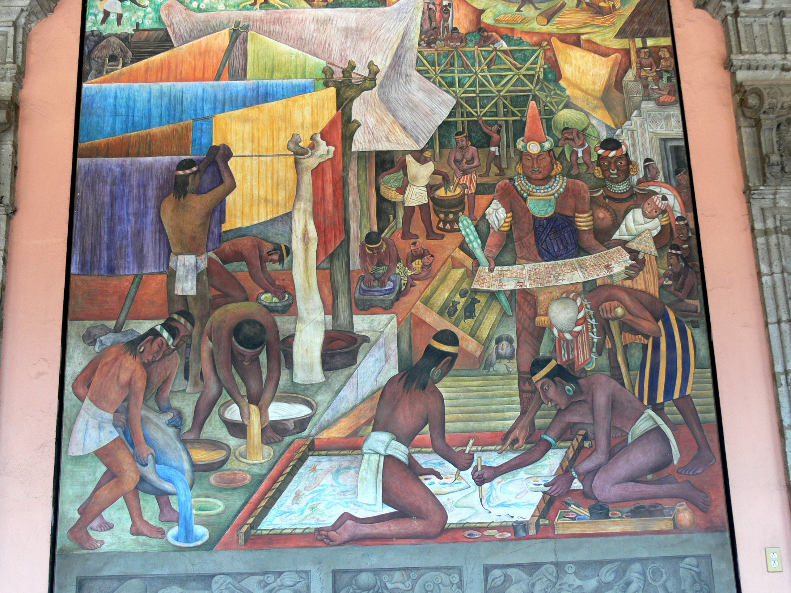 Mexico City - Palacio Nacional. Mural by Diego Rivera showing the life in Aztec times e.g. dyeing of textiles.